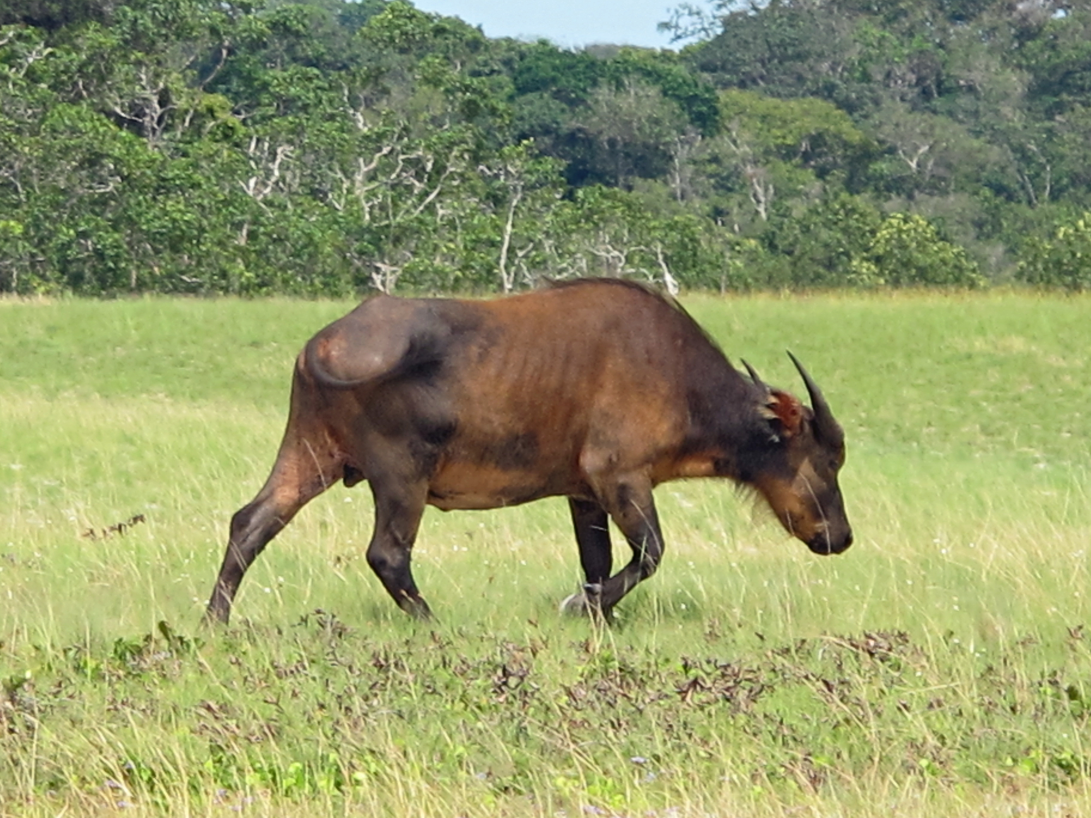 Forest bufflao (Syncerus caffer nanuns) at Loango National Park, Gaboon